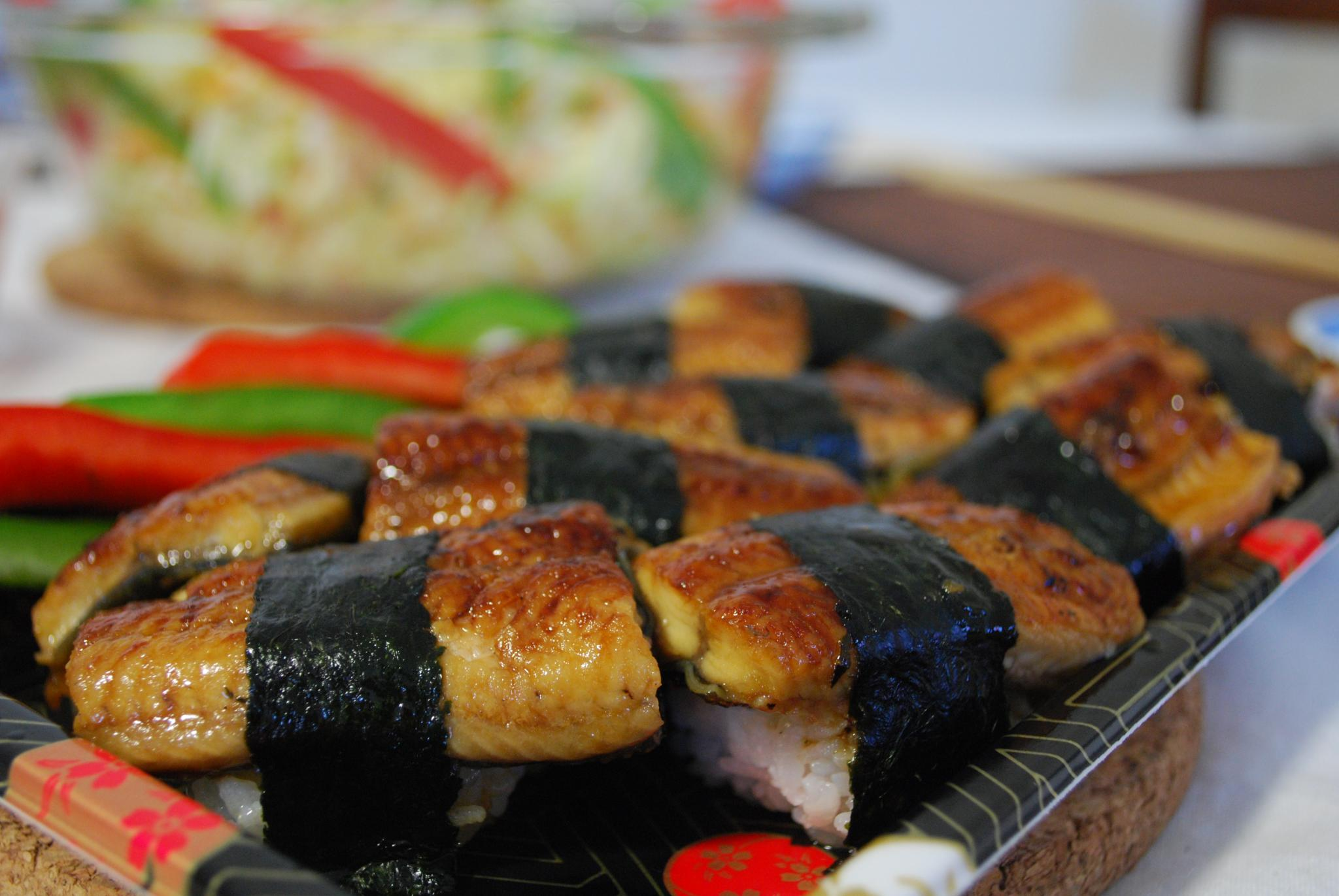 Tender morsels of tasty eel with a sweet, smoky sauce. Suzuran Japan Foods Trading Pty Ltd, Camberwell, VIC